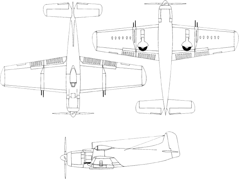 Line drawings of the Martin AM-1 Mauler.